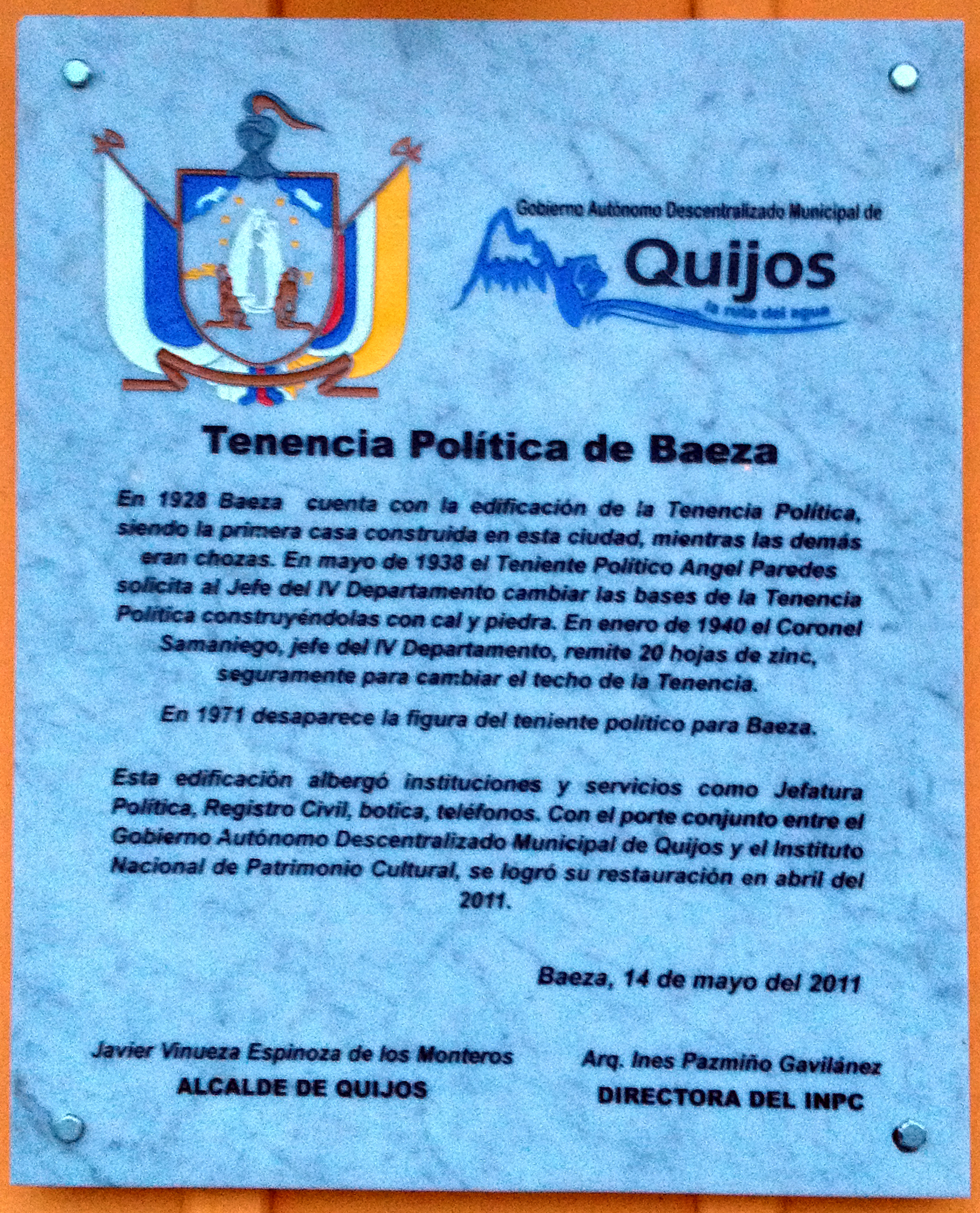 Commemorative plaque at the Tenencia Política, in the City of Baeza, Quijos Canton, Napo Province, Ecuador, unveiled and signed by Alcalde of Quijos, Mr. Javier Vinueza Espinoza de los Monteros, and Executive Director of Ecuador´s National Institute of Cultural Heritage (Instuto Nacional de Patrimonio Cultural, INPC), Arquitect Inés Pazmiño Gávilanez.